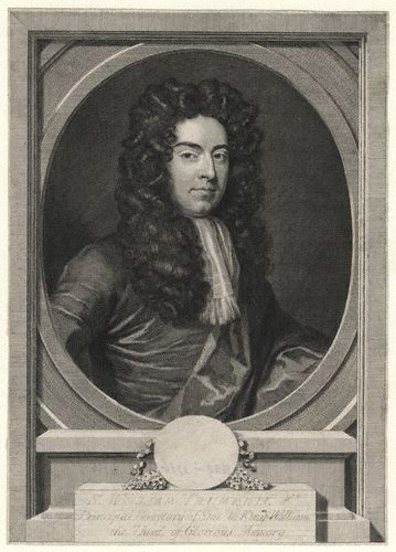 Sir William Trumbull (1639-1716)